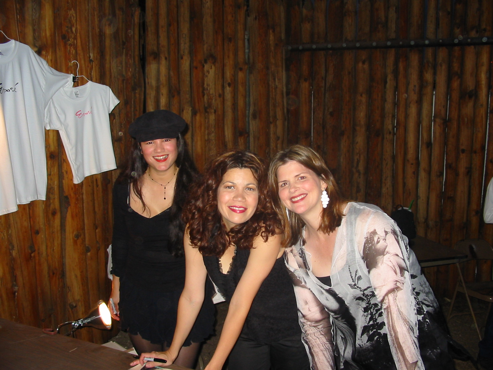 Moneymaker, Jurado and Curless (of Exposé) during an autograph session after the first show at the Mid State Fair (Paso Robles, California) in 2003